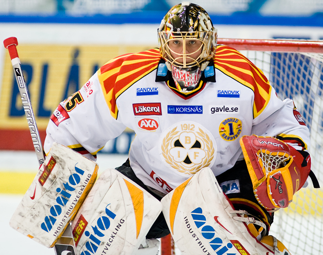 Jacob Markström of Brynäs IF during an Elitserien game against Frölunda HC in Scandinavium, Gothenburg, on February 10, 2009. Frölunda HC won, 4-1.